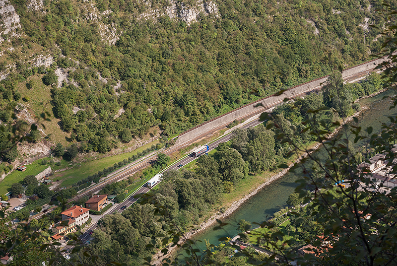 Road 47 near Valstagna, Italy